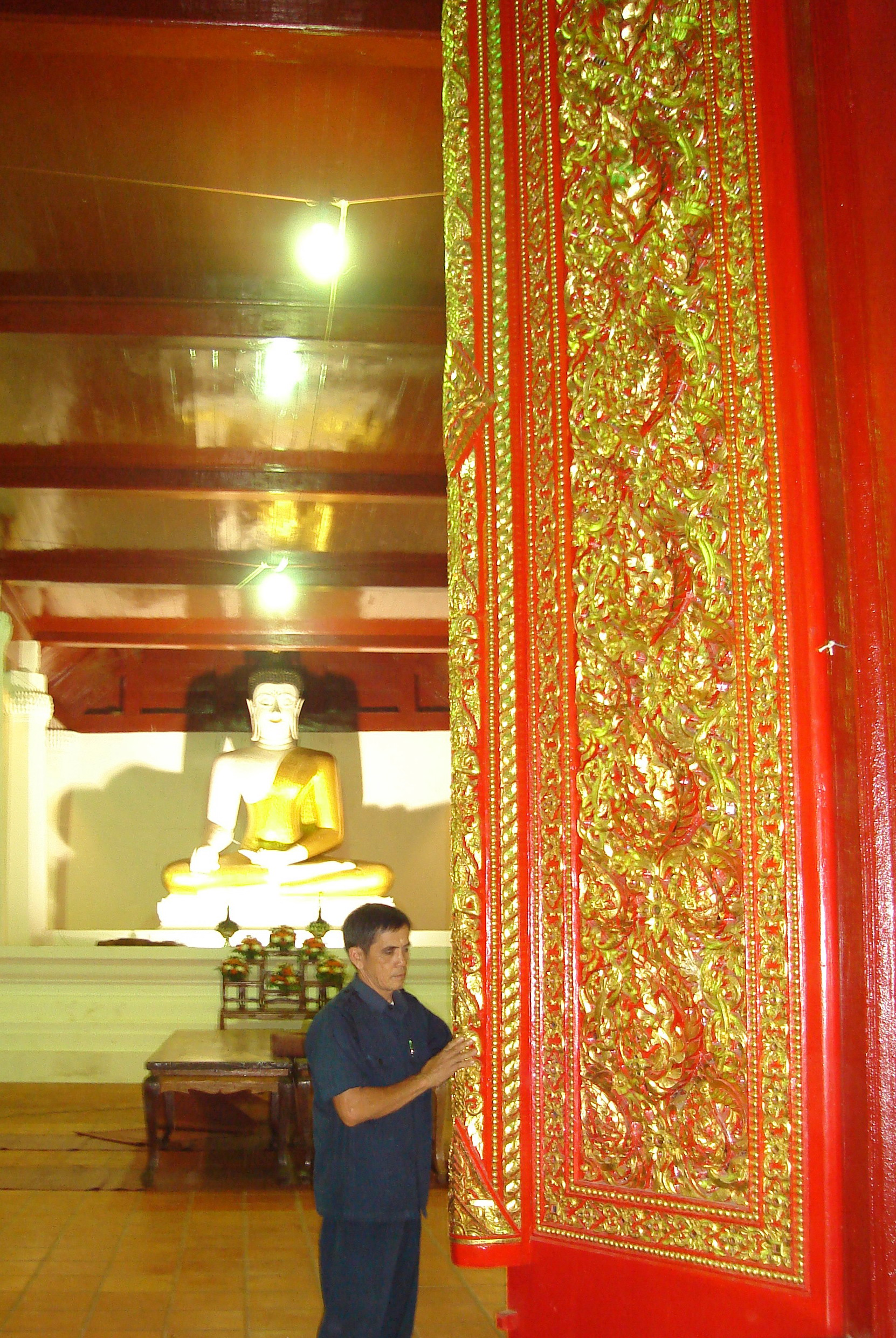 wat phra fang door (Wat Phra Fang temple) Location: Wat Phra Fang (Wat Phrafangsawangkabureemuneenat) Ban Phra Fang, Pha Juk subdistrict, Mueang Uttaradit, Uttaradit Province, Thailand.